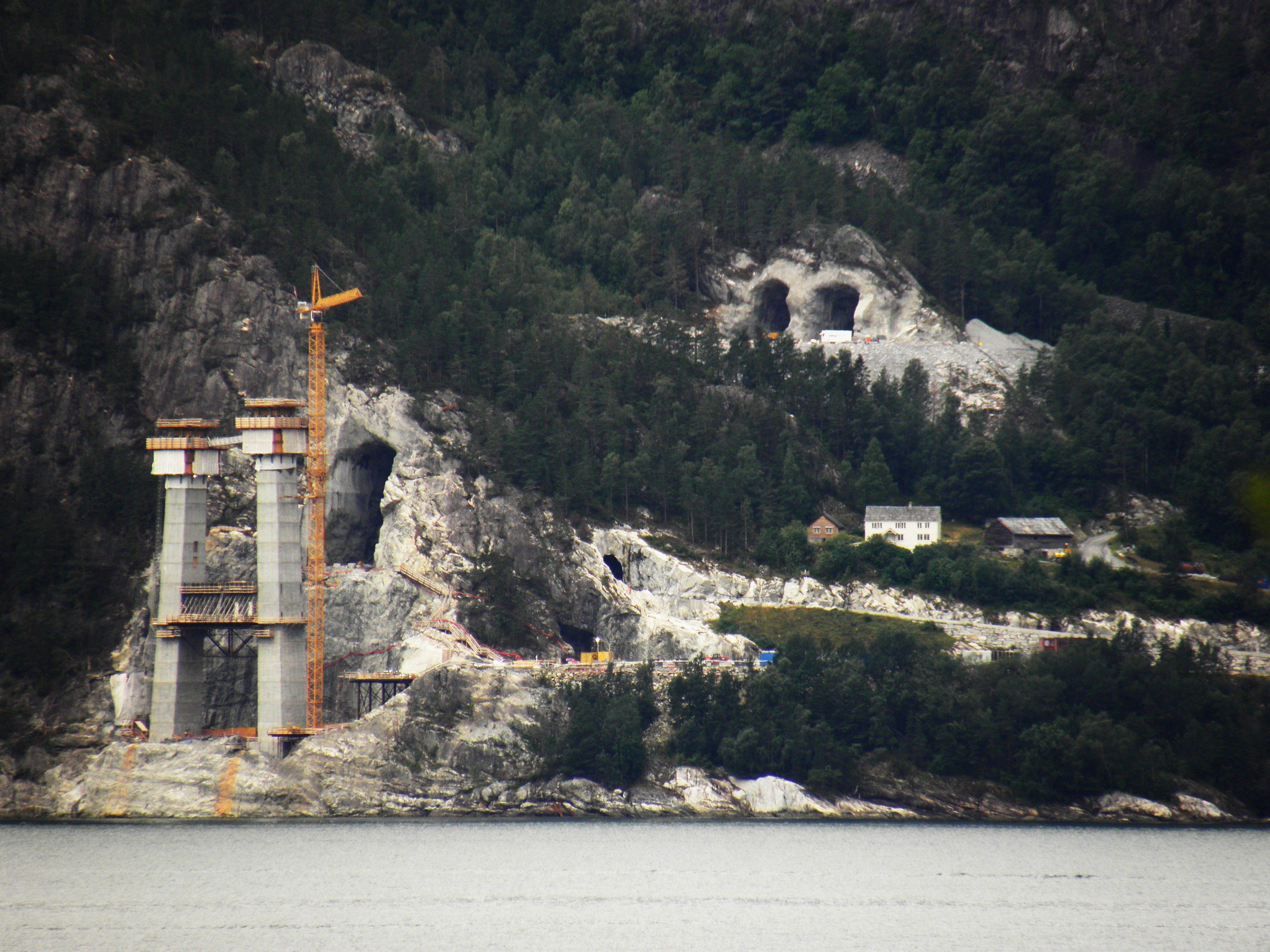 The Hardanger Bridge under construction, 31 July 2010.